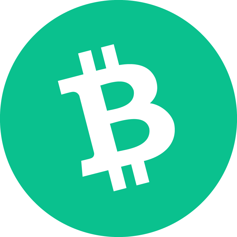 Bitcoin Cash logo